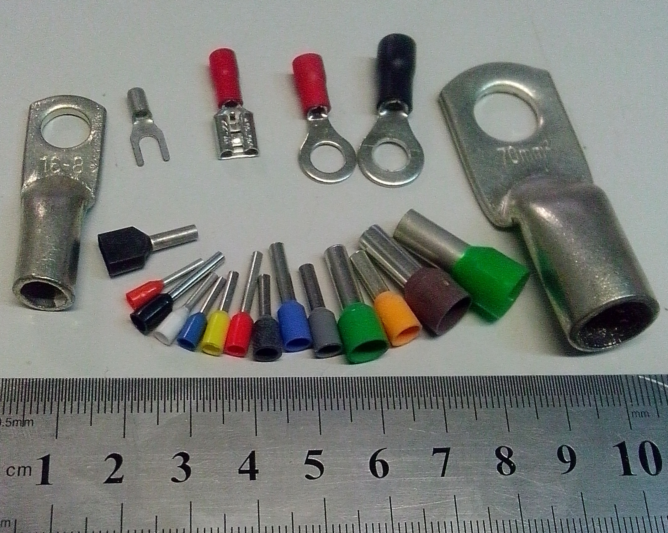 Various types/sizes of ring and forked lug terminals and straight terminals,used for terminating wires and cables.